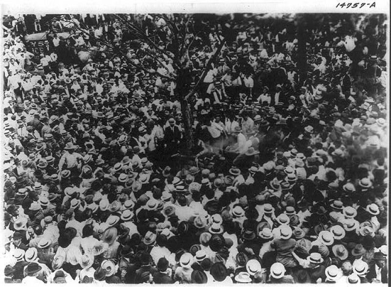 A picture of the mob preparing to lynch Jesse Washington from a tree in front of Waco city hall taken by Fred Gildersleeve on May 15, 1916.